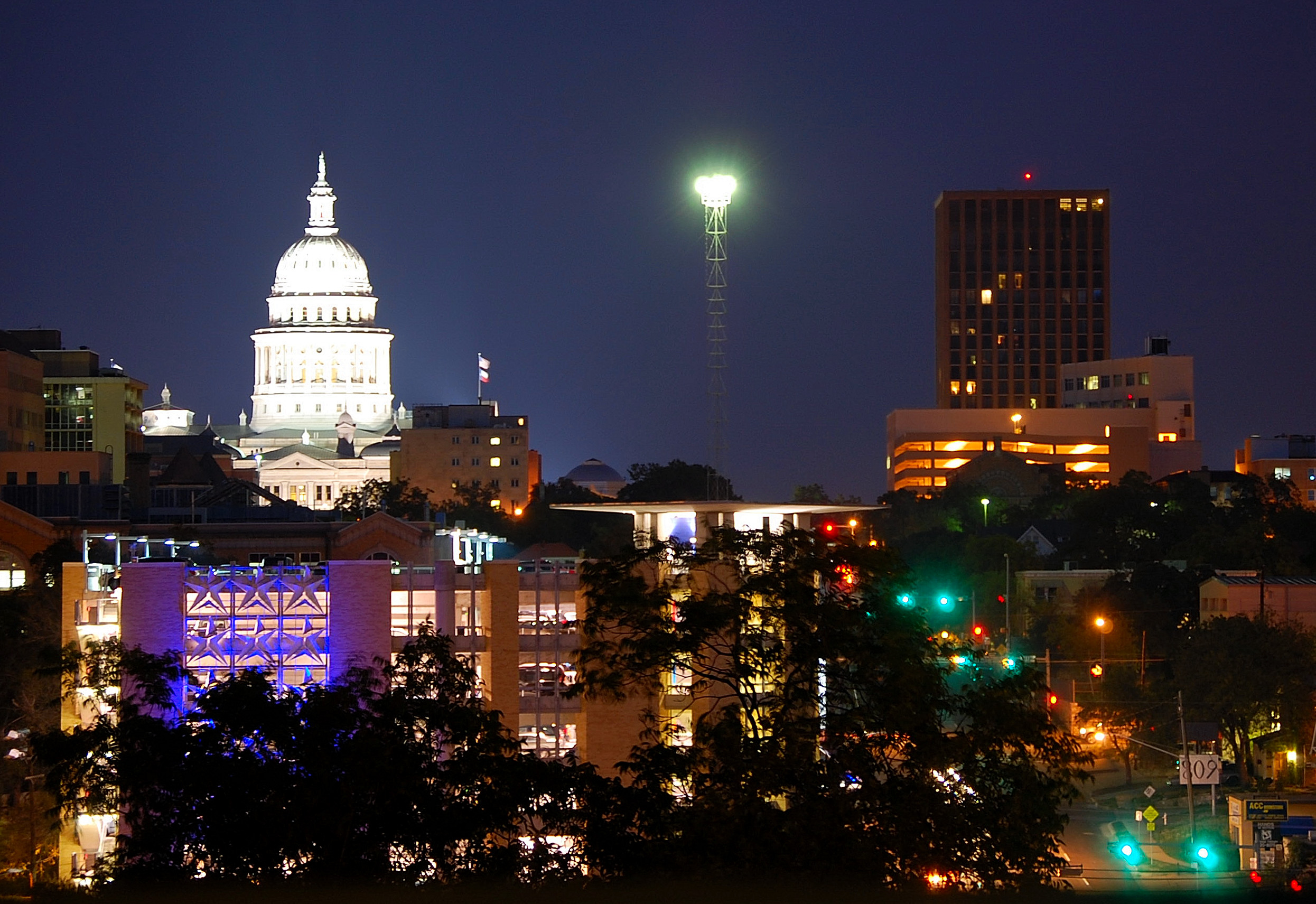 Texas State Capitol and Moonlight Tower